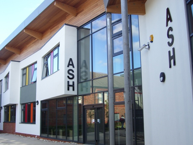 A picture showing the new Ash Building at Wyke College, Hull.